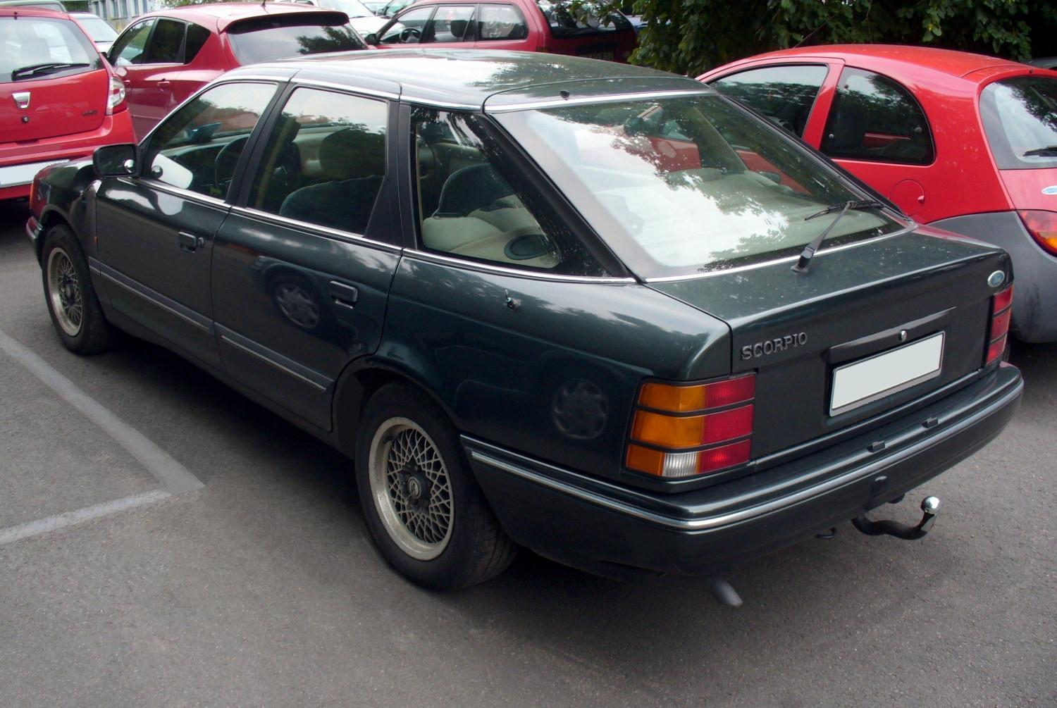 Ford Scorpio